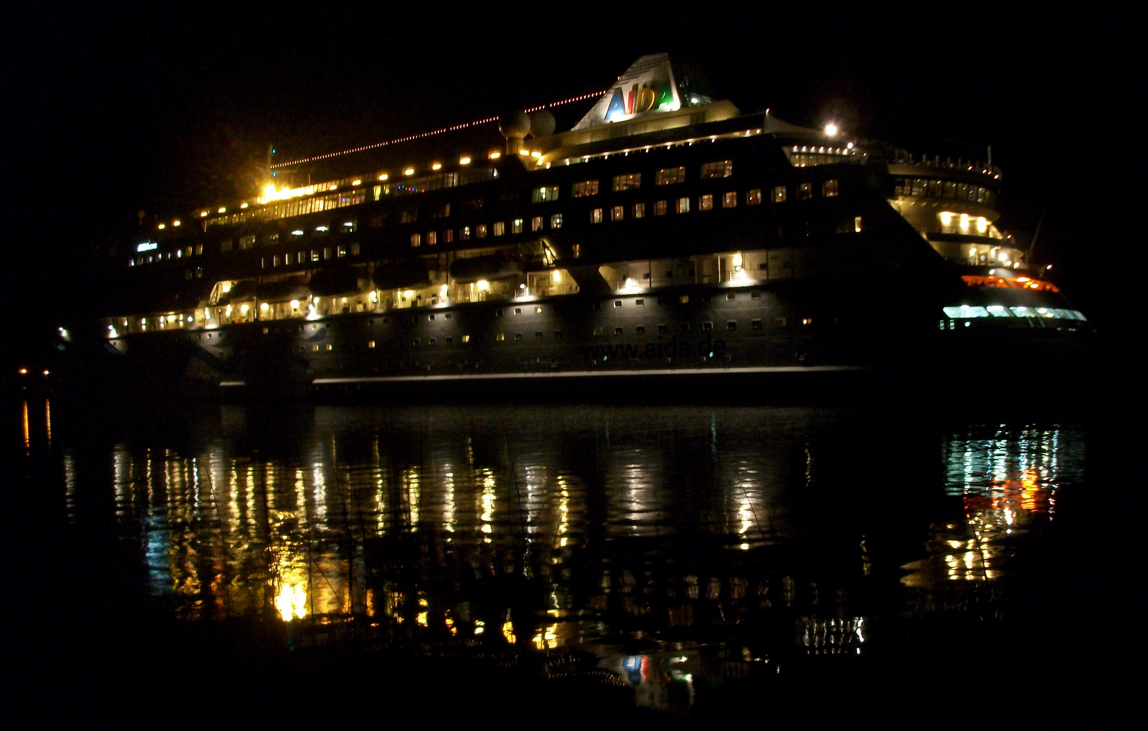 Cruise Ship AIDAcara